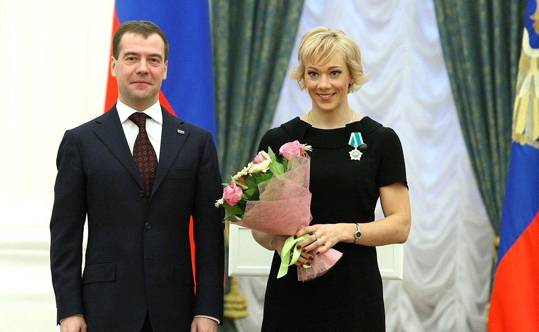 THE KREMLIN, MOSCOW. Ceremony presenting state decorations to medal winners at the 2010 Vancouver Winter Olympics. With Olympic biathlon champion Olga Zaitseva.